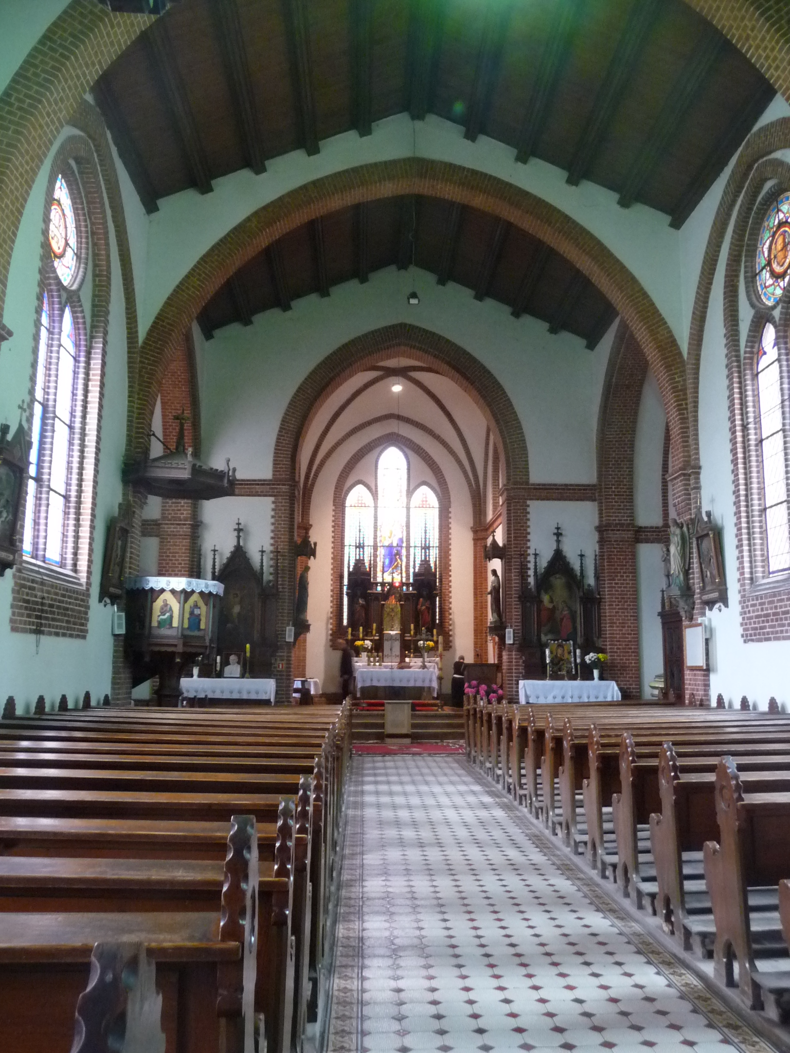 Saint Joseph church in Wąsosz